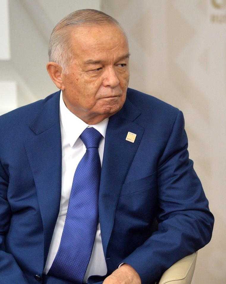 President of Uzbekistan Islam Karimov in city of Ufa in Russia during the SCO summit